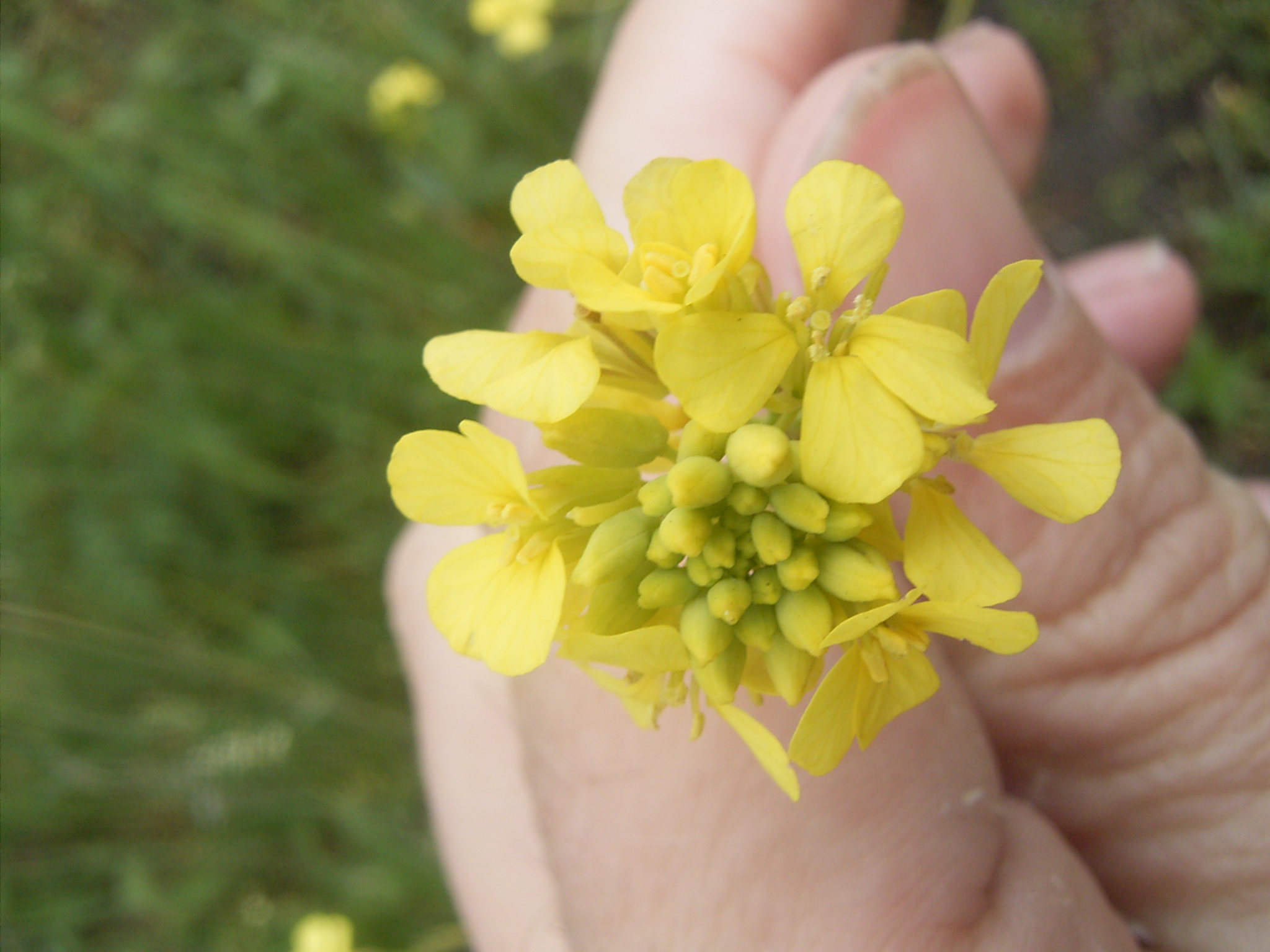 This photo shows the flowers of Rapistrum rugosum